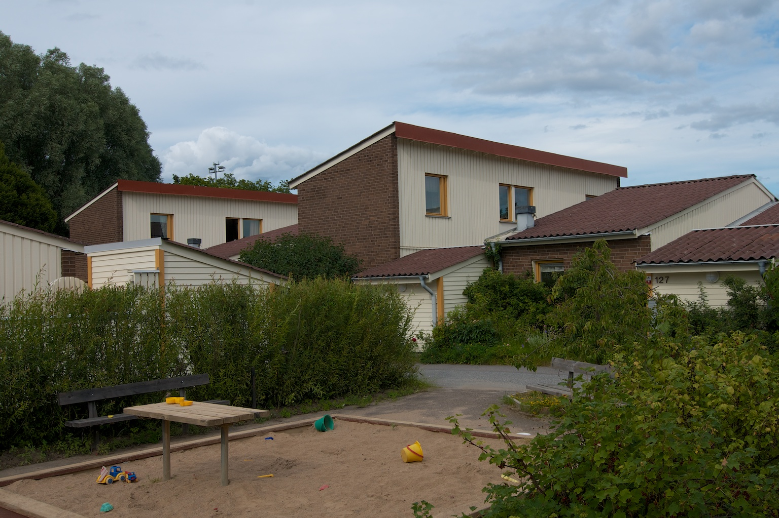 Play ground in Tegelhagen